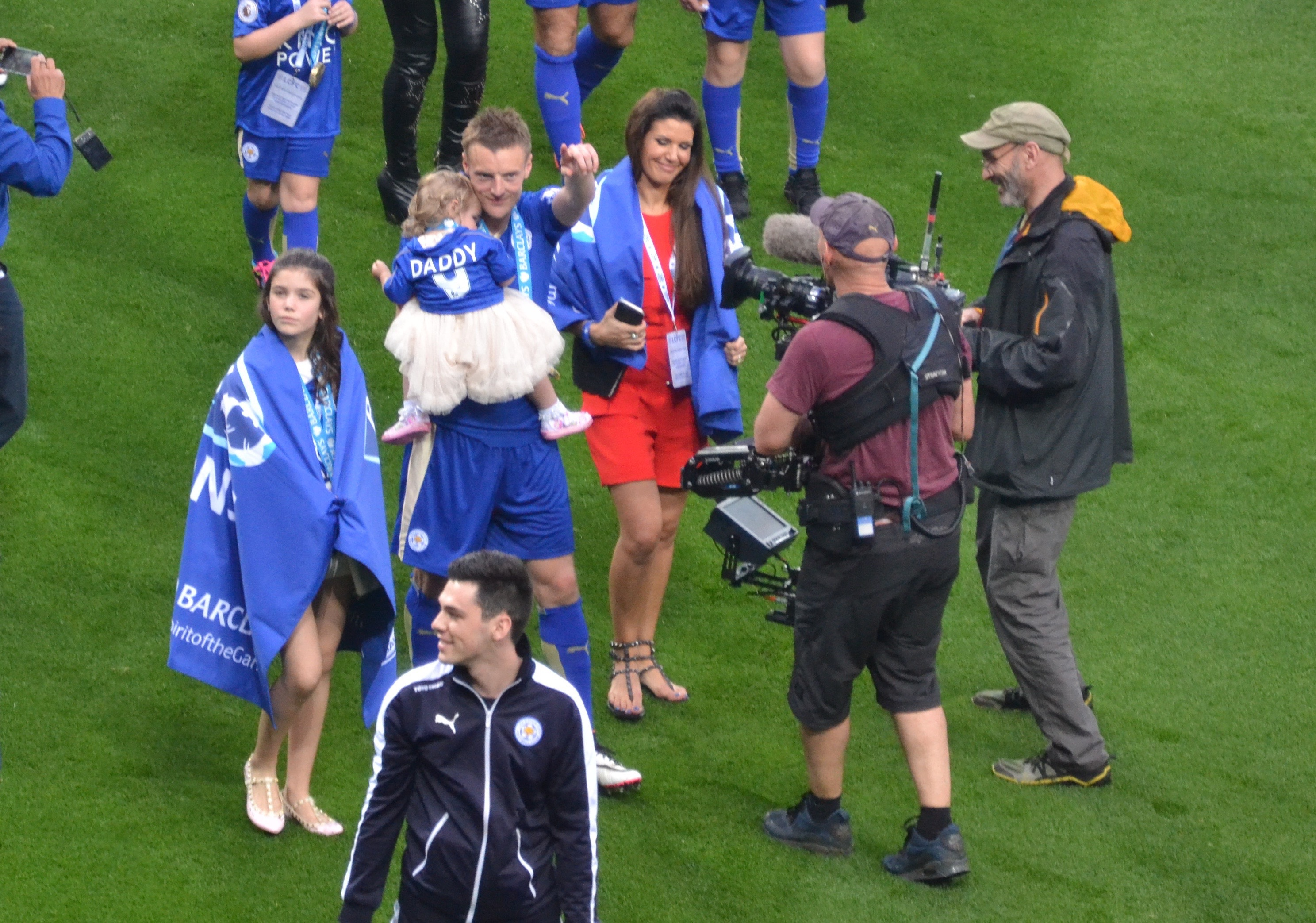 Jamie Vardy and family after victory versus Everton at the King Power Stadium.